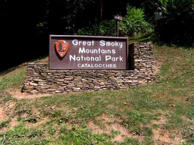 The eastern entrance to Cataloochee atop Cataloochee Divide in the Great Smoky Mountains of North Carolina.